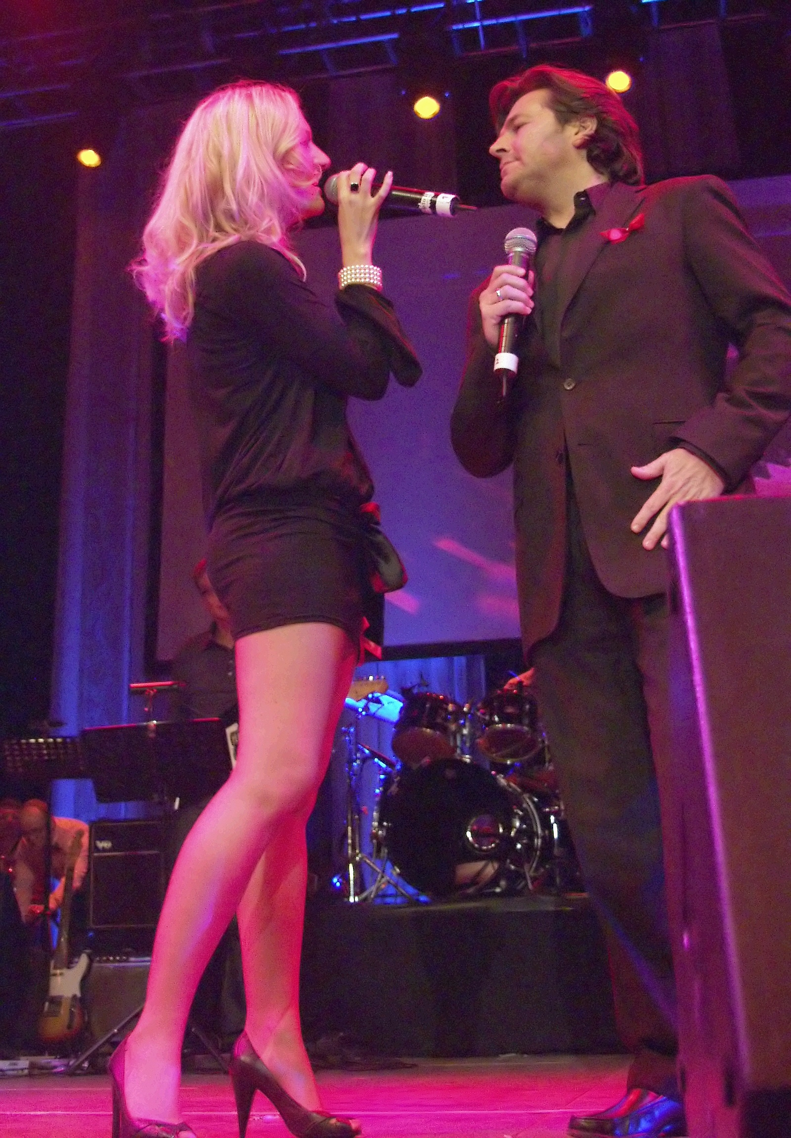 Juliette Schoppmann & Thomas Anders performing on the charity concert "Cover me" at Palladium, Cologne, Germany.